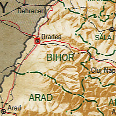 Map of Oradea Municipality, Romania.